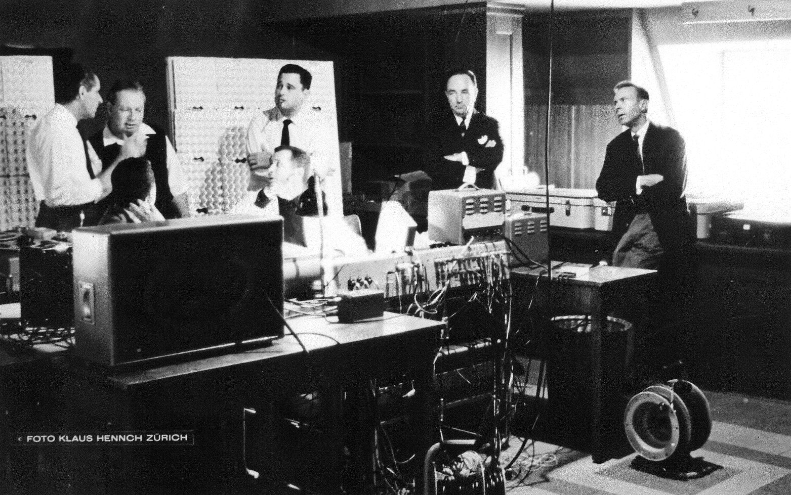 October 1966 at Kirchgemeindehaus in Winterthur: With his new equipment, Hellmuth Kolbe recorded the Isaac Stern Trio for CBS (Ludwig van Beethoven, Piano Trios, Op. 97, Archduke). Only for the remaining tracks 5 to 7, which were recorded in New York, the producer Andrew Kazdin is listed. From left to right: Leonard Rose (cello), Isaac Stern (violin), Eugene Istomin (piano), seated at the desk: Robert Lattmann (engineer) and Hellmuth Kolbe (ngineer/producer). The two remaining persons are unknown.